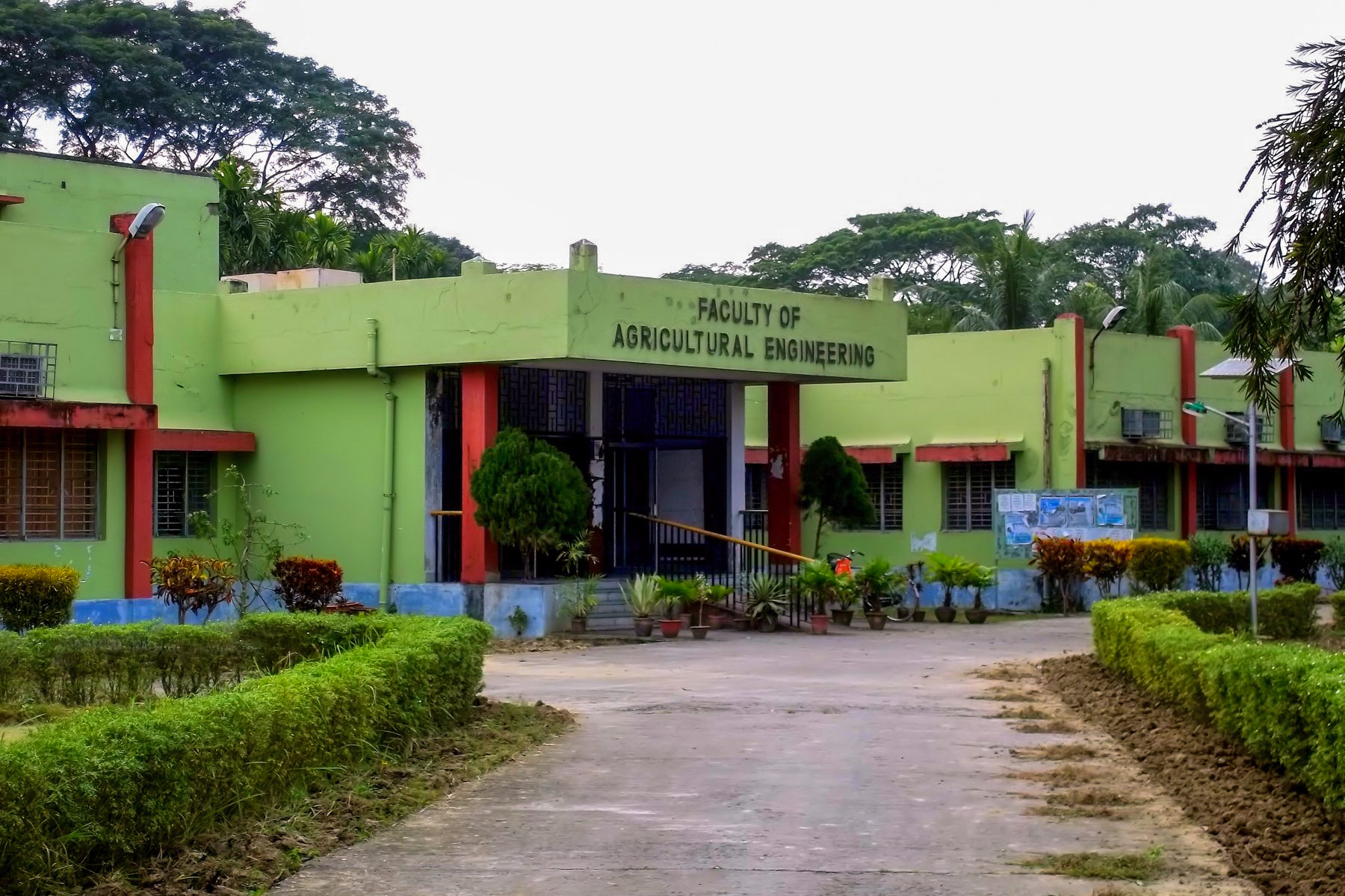 The Faculty of Agicultural Engineering, BCKV